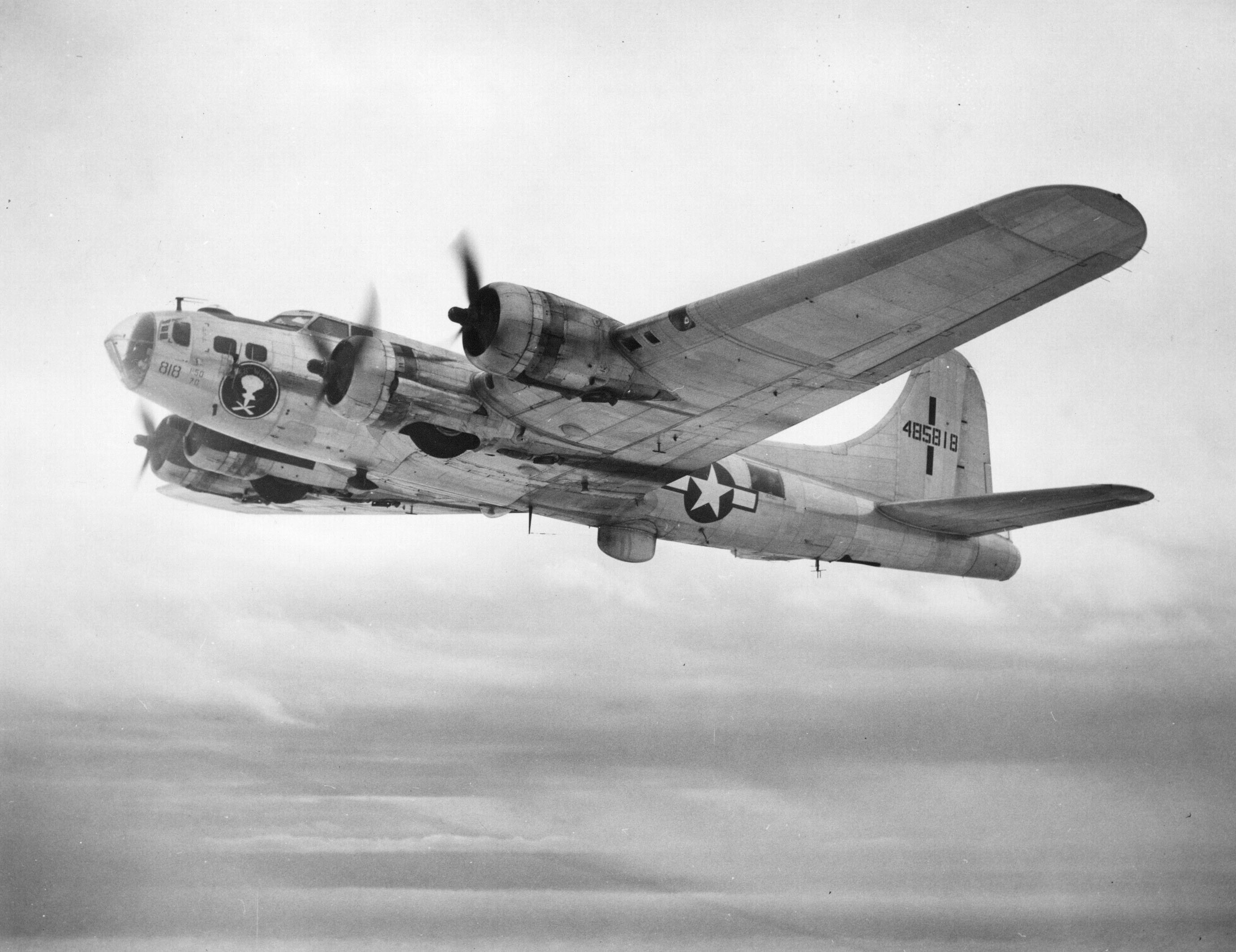 Boeing B-17 Flying Fortress According to tail number (485818) the plane corresponds to series number 44-85818, and should be a Lockheed/Vega B-17G-110-VE Fortress, manufactured in 1945 by Lockheed's Vega division in Burbank, CA. It belongs to the last batch of B-17s ever manufacturedHowever, it lacks the "chin" turret and the "cheek" machine guns of the last F-series and the full G-series. The ventral turret is not the standard Sperry 654849J. Instead of it, the piece in ventral position looks like a dome for communications or radar equipment. On the other hand, consistently with its block number, (110-VE) it has no camouflage paint. USAAF did not use to alter the serial numbers. If you use this image, it is suggested to insert a caption like "A modified B-17G"